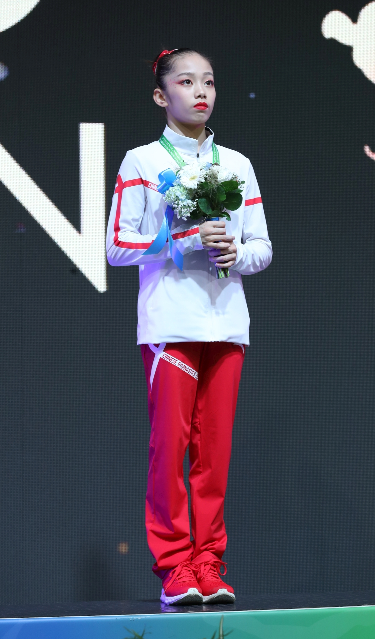 Balance beam victory ceremony during the girls' apparatus finals at the 1st FIG Artistic Gymnastics Junior World Championships on 30 June 2019 in Győr, Hungary. Depicted: Xiaoyuan Wei.